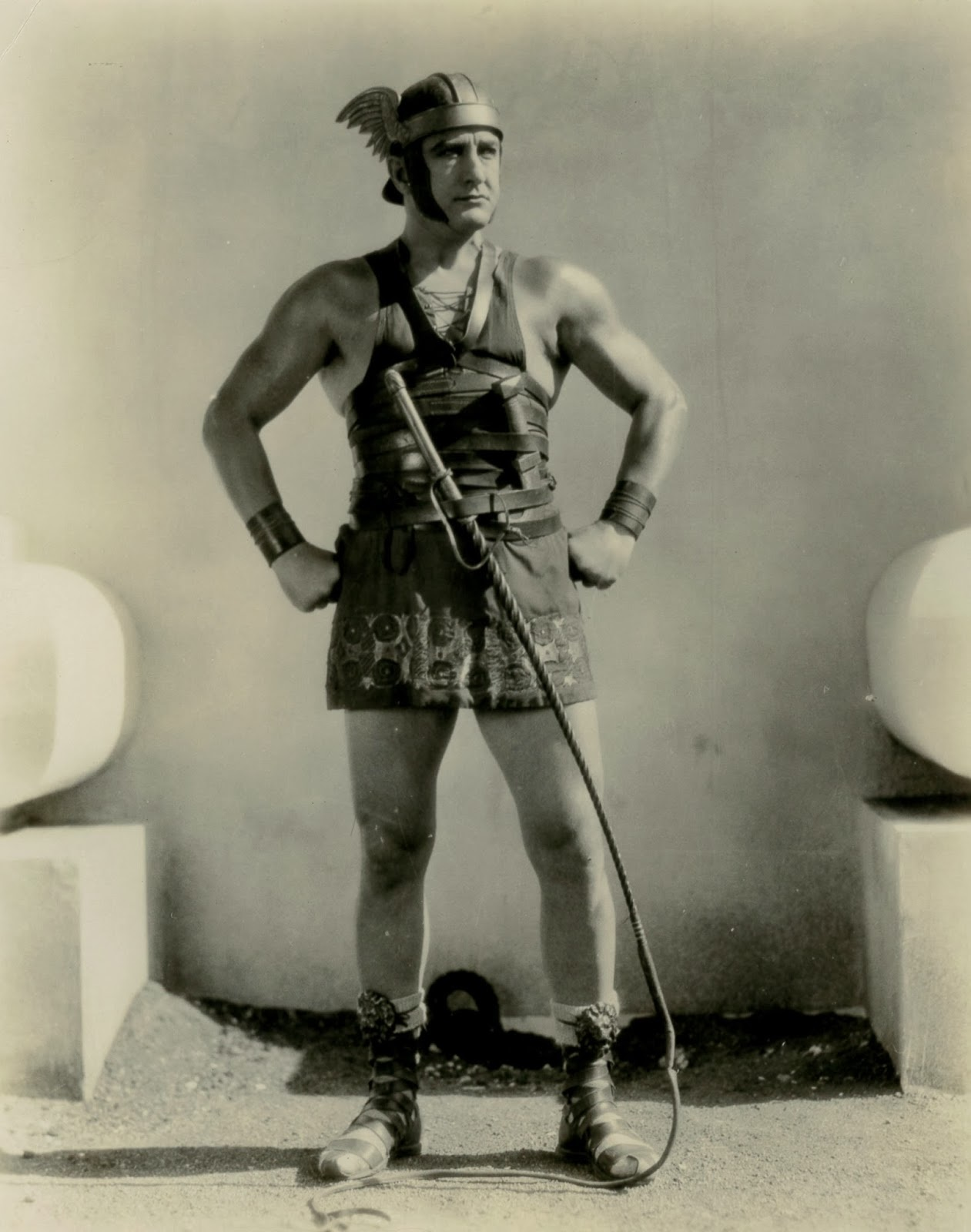 Bushman as Messala in the American drama film Ben-Hur: A Tale of the Christ (1925).